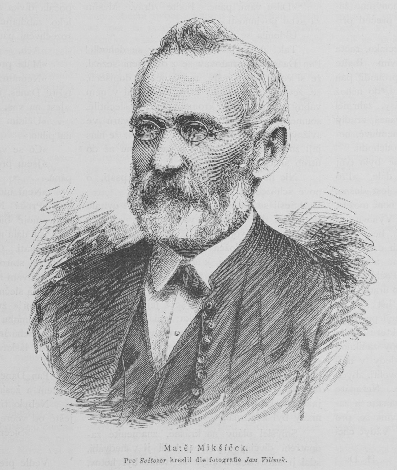 Portrait of Matěj Mikšíček (1815 - 1892), writer and journalist from Moravia